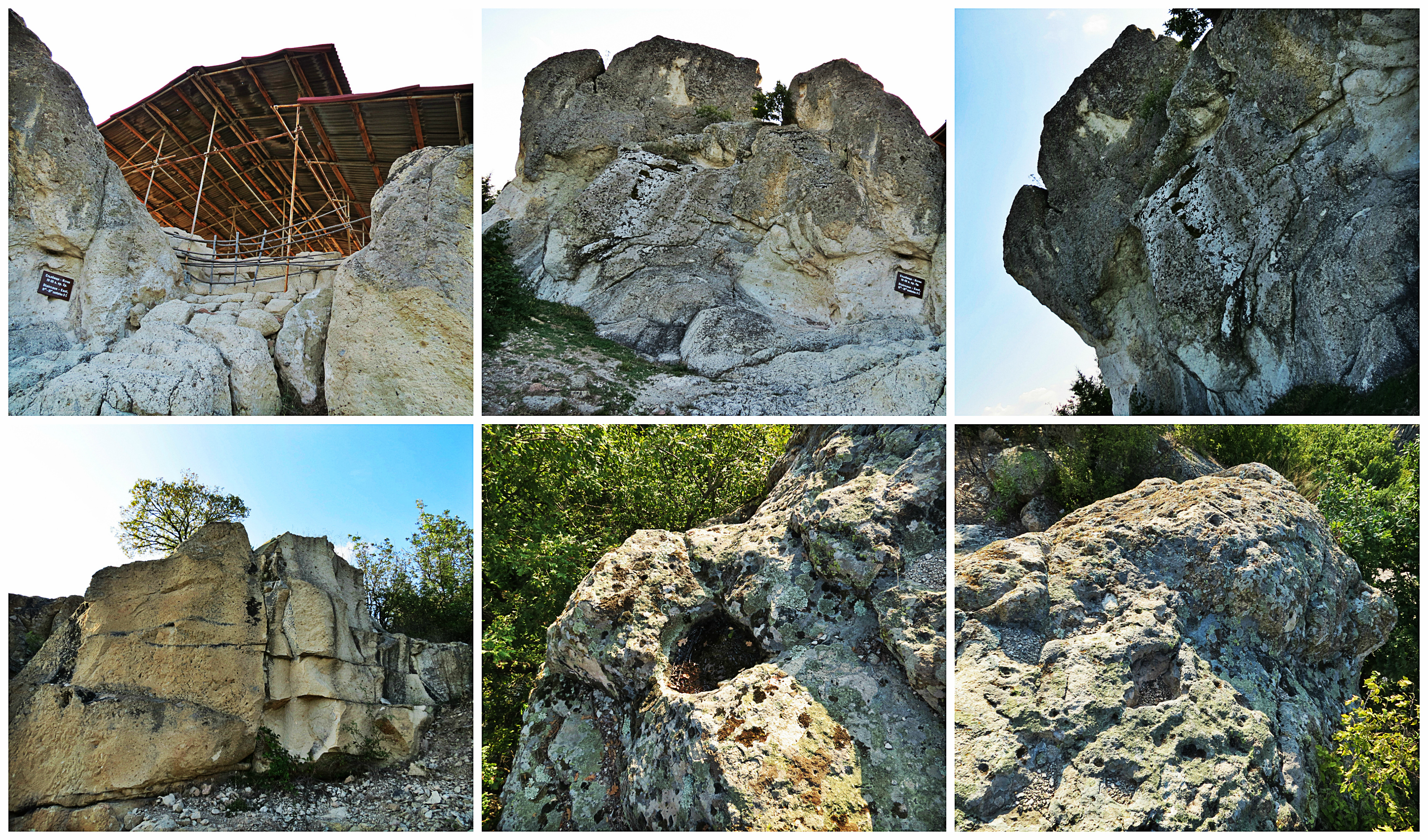 Tatul sanctuary 4 Bulgaria